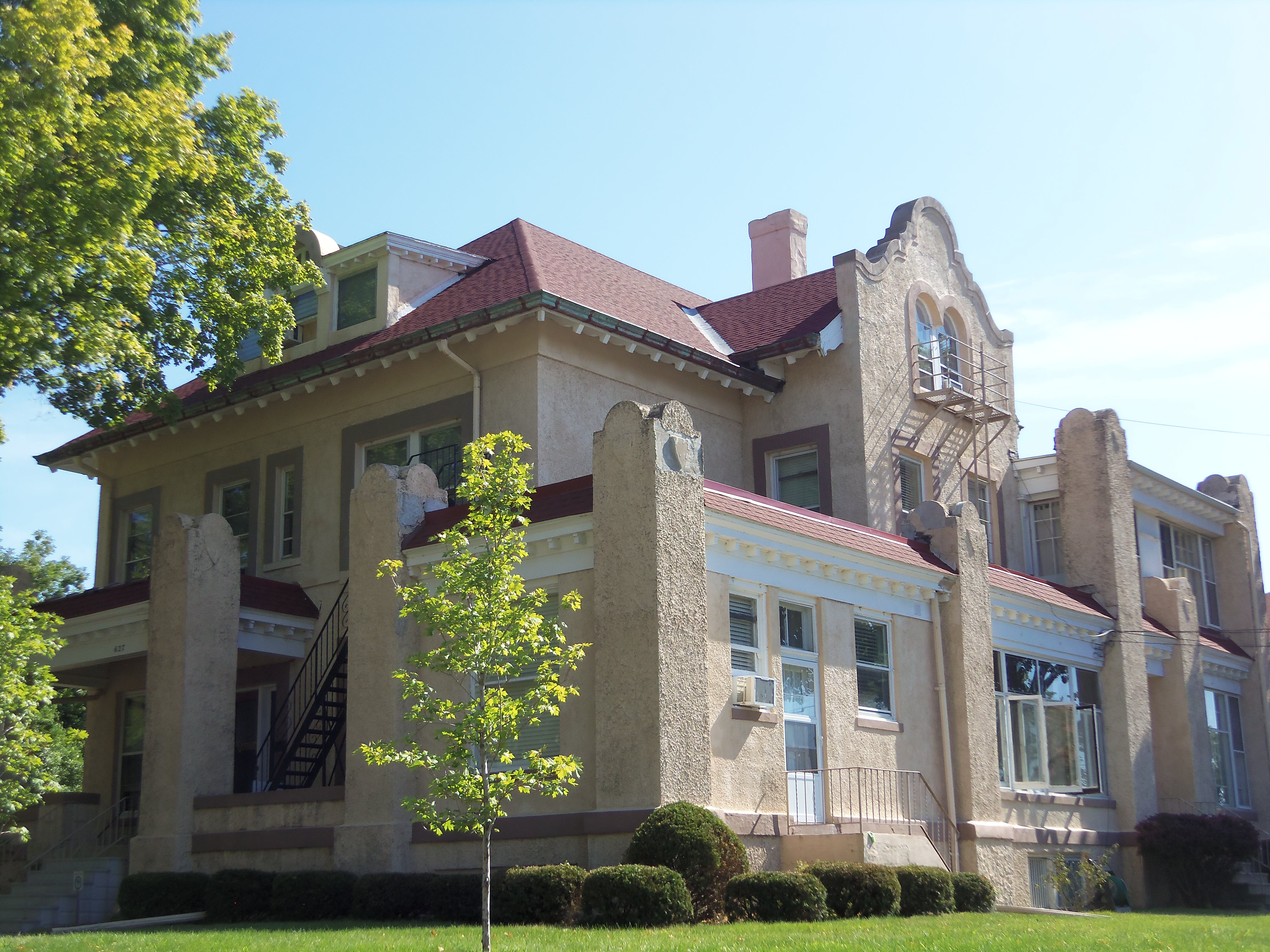 The Louis & Clara Best House is located at 627 Ripley St. in Davenport, Iowa. It is individually listed and it is a part of the Hamburg Historic District on the National Register of Historic Places.